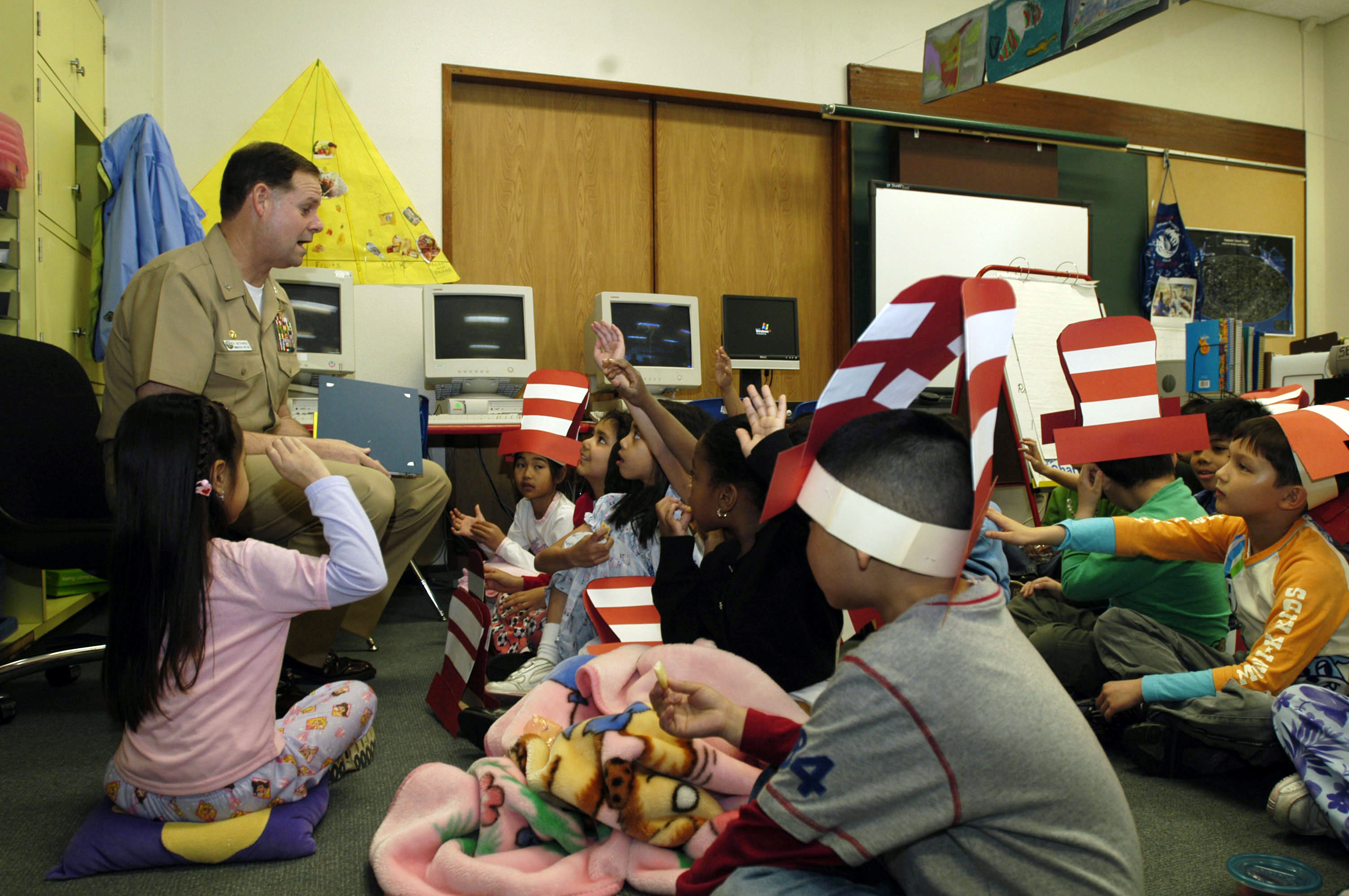 Yokosuka, Japan (March 2, 2006) - USS Kitty Hawk (CV 63) Commanding Officer, Capt. Ed McNamee, takes a few minutes to find out what 2nd graders at Sullivans Elementary School would like to be when they grow up before reading them a book. McNamee participated in literacy week as part of "Read Across America," an annual, week-long event that coincides with Dr. Seuss' birthday. Currently in port, Kitty Hawk demonstrates power projection and sea control as the U.S. Navy's only forward-deployed aircraft carrier. U.S. Navy photograph by Photographer's Mate Airman Thomas J. Holt (RELEASED)